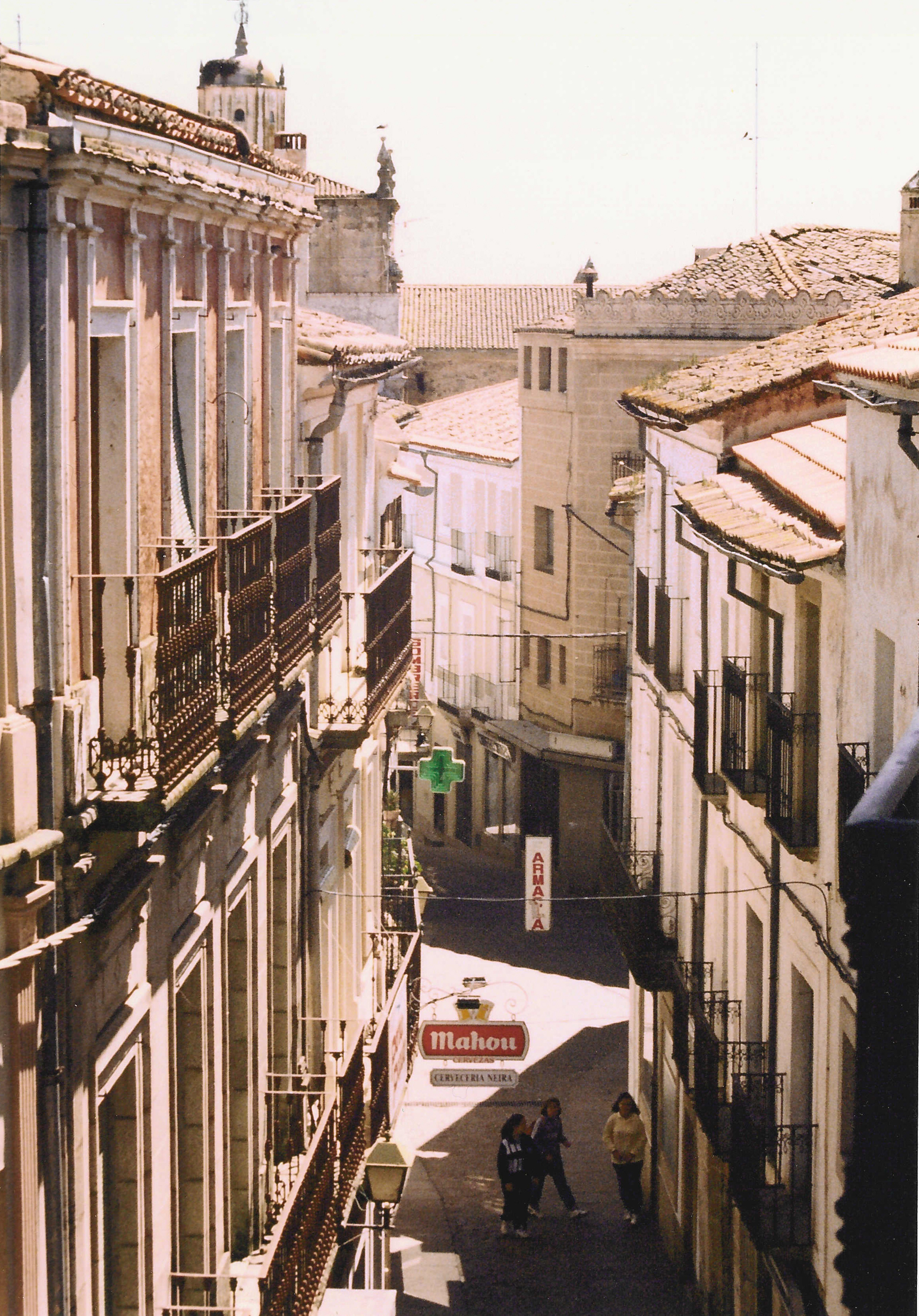 Streetscape, Trujillo, Extremadura, Spain.